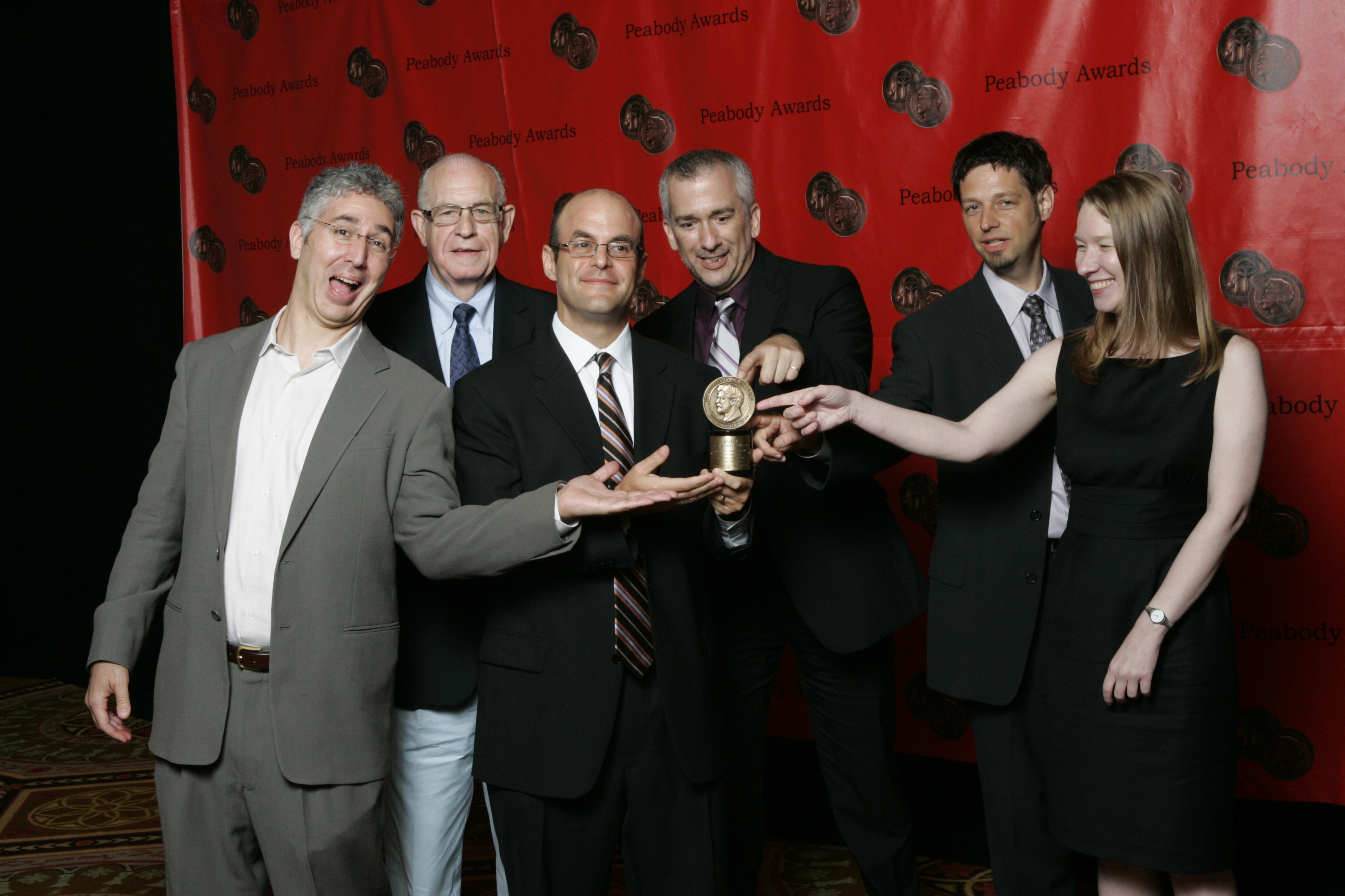 Doug Berman, Carl Kasell, Peter Sagal, Rod Abid, Phillip Goedicke, and Emily Ecton, 67th Annual Peabody Awards Luncheon Waldorf=Astoria Hotel New York, NY USA June 16, 2008